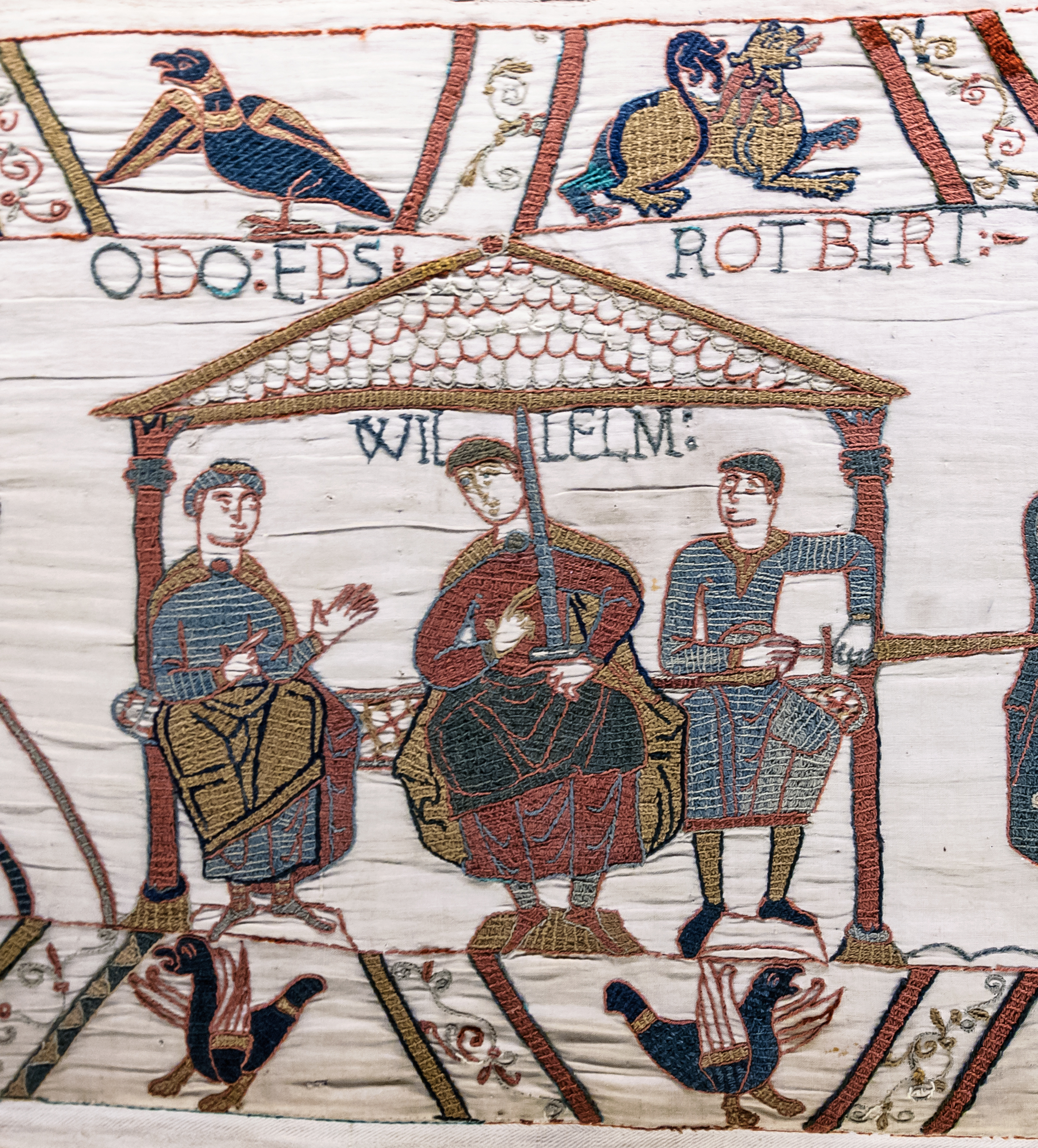 Bayeux Tapestry - Scene 44 - Duke William and his two half-brothers: to his right, Bishop Odo of Bayeux and to his left, Count Robert of Mortain. Titulus: ODO EP[ISCOPU]S WILLELM ROTBERT (Bishop Odo, William, Robert)